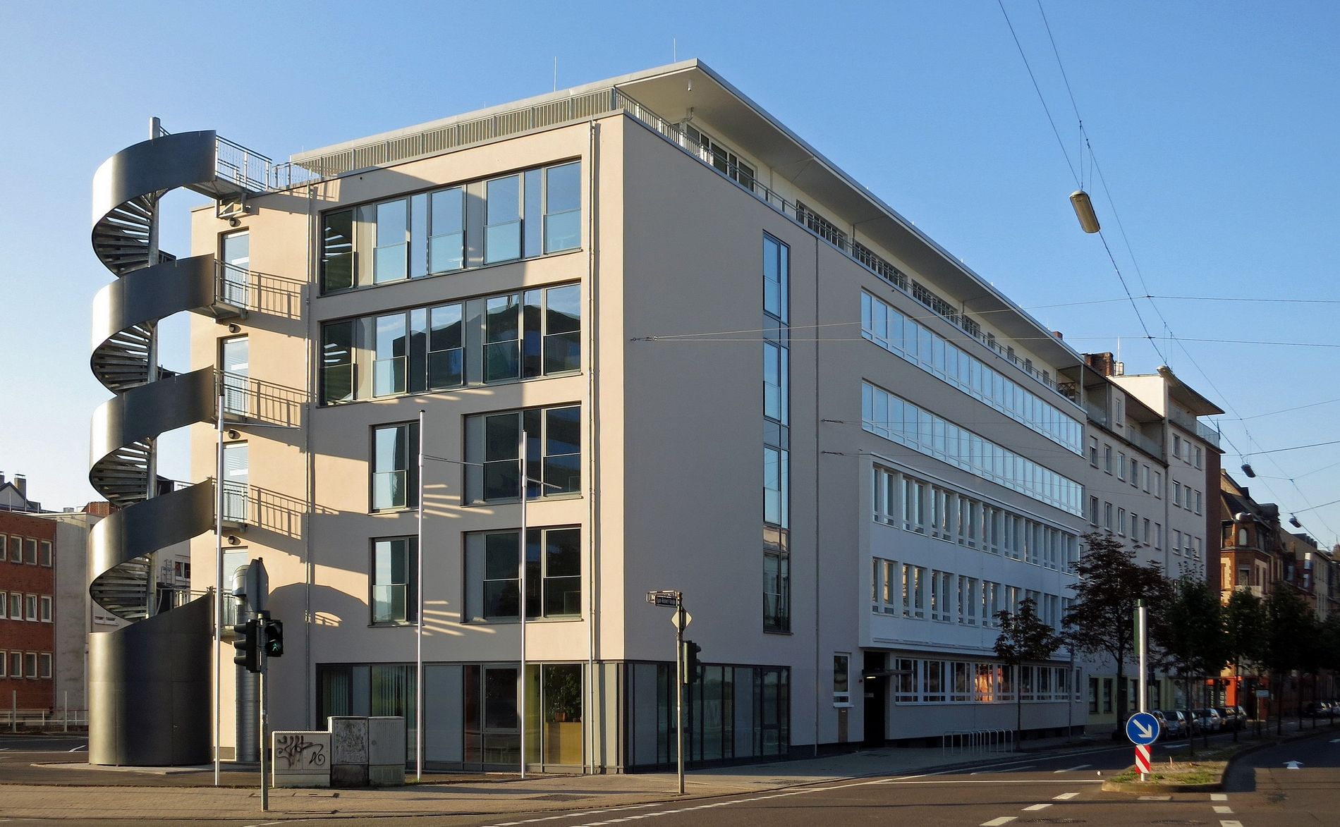 The Superior State Social Court in Saarbrücken.